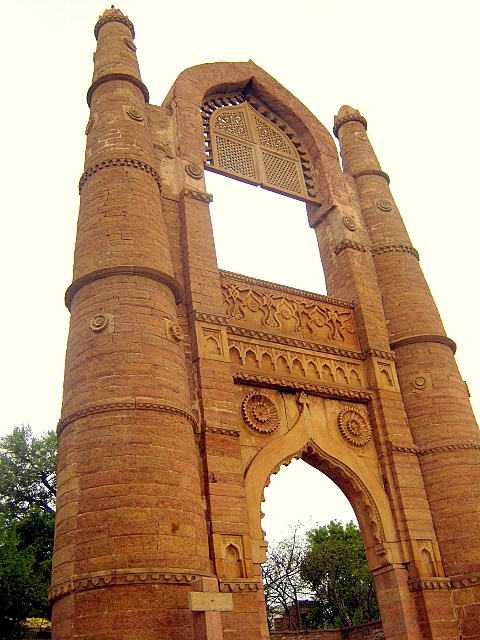 The Badal Mahal Darwaza, located in Chanderi, Madhya Pradesh, was built in the 15th century during the reign of Sultan Mahmood Shah Khilji (ASI Serial Number of the monument: N-MP-126)